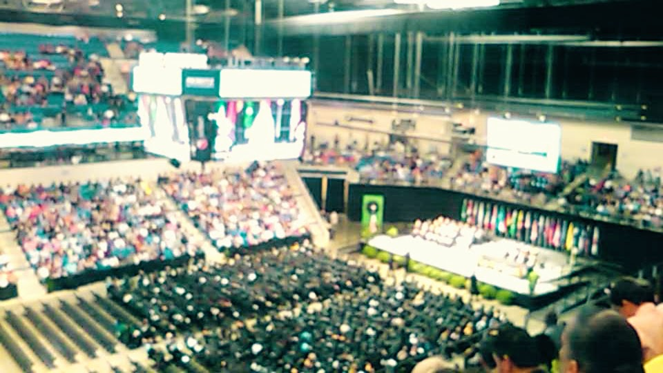 This photo was taken during a graduation ceremony at the College Park Center in Arlington, Tarrant County, Texas.